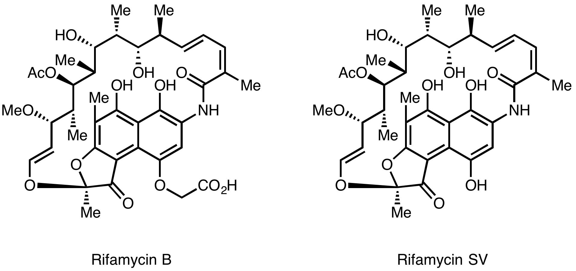 Rifamycins B and SV chemical structure